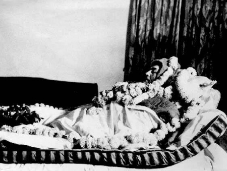 Dr. Babasaheb Ambedkar as he passed away in his sleep at his residence 26, Alipore Road, New Delhi